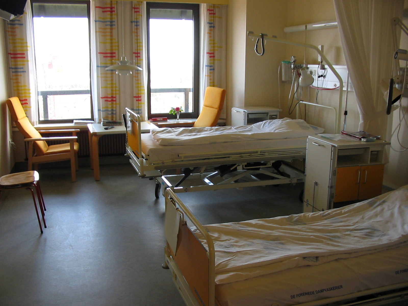 a hospital room (Denmark, 2005)